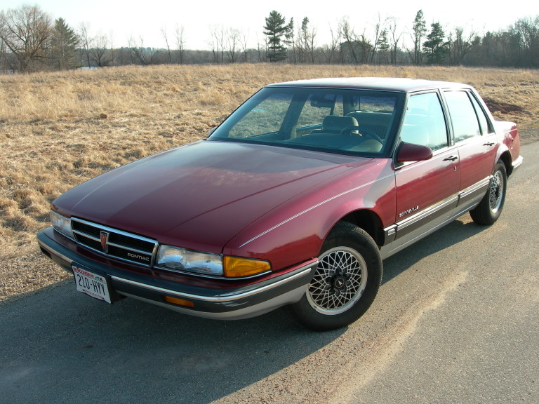 This is the a view of the front left side of a 1989 Pontiac Bonneville. It was taken March 2006.